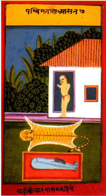 Illustration of Pascimatanasana forward bend yoga pose from manuscript of, 1830.